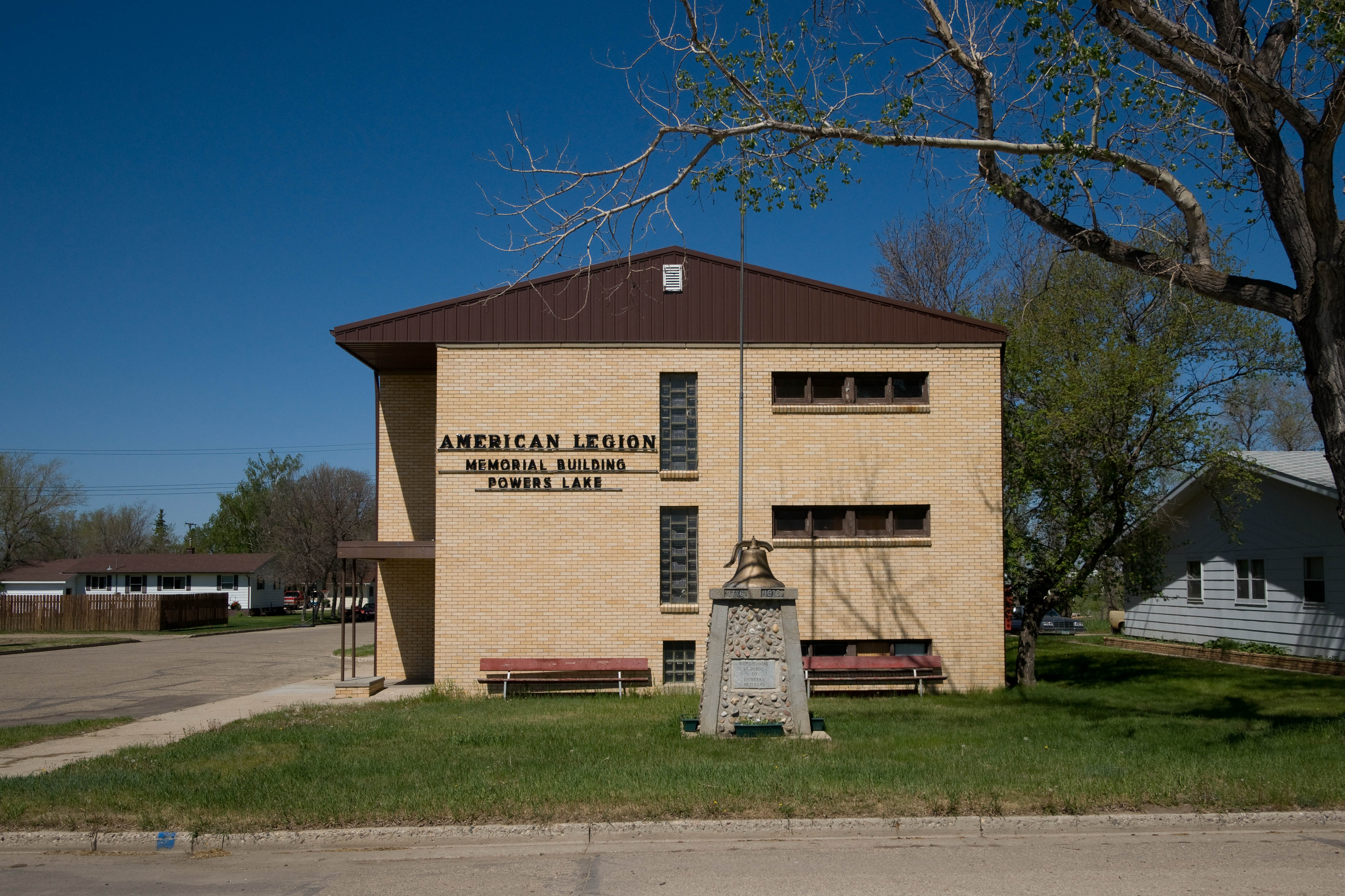 American Legion Memorial Building in Powers Lake, North Dakota